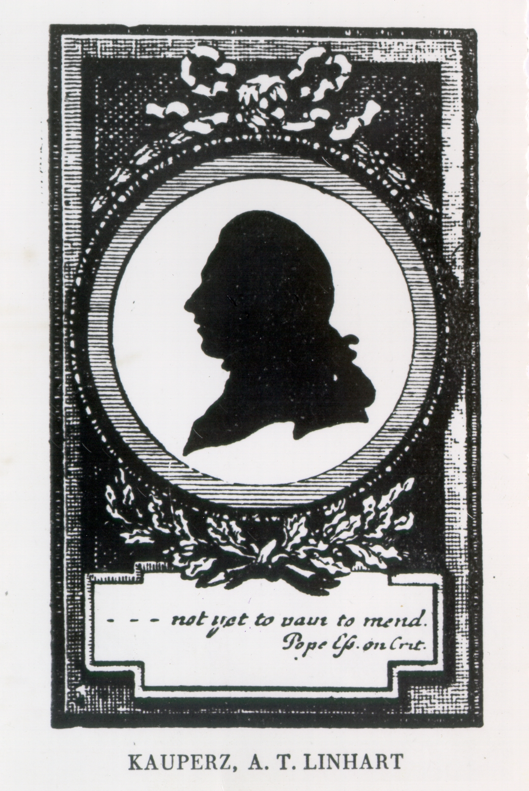 Anton Tomaž Linhart (1756-1795), Slovene playwright, historian and writer.